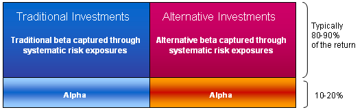 Created by myself